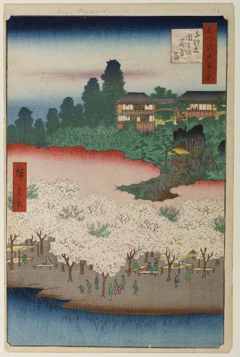 Part of the series One Hundred Famous Views of Edo, no. 016, part 1: Spring.